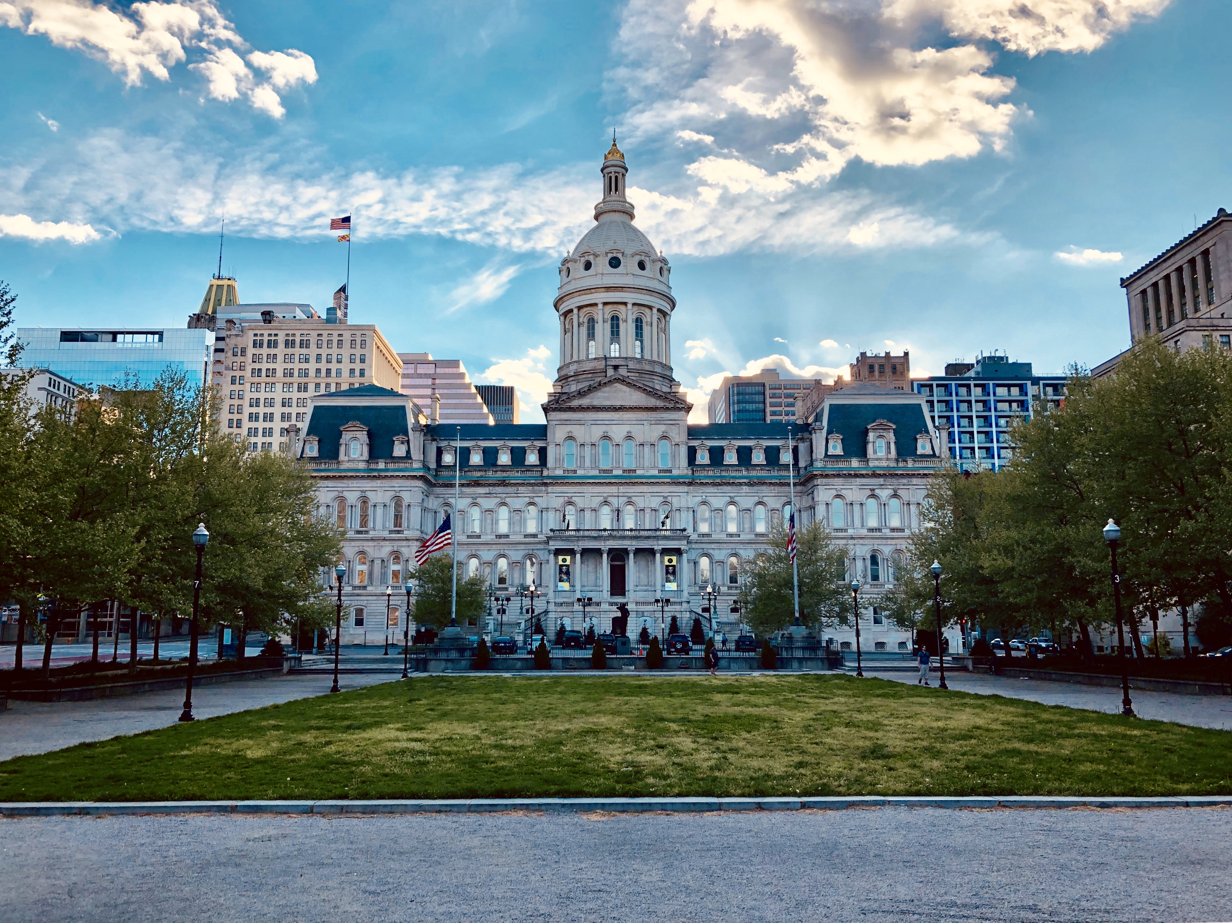 Photo of the Baltimore City Hall in April 2020, right before sunset. Photo by Chris6d. The photo looks like a filter was applied, but the photo is completely free of any filters, it's just the natural lighting.